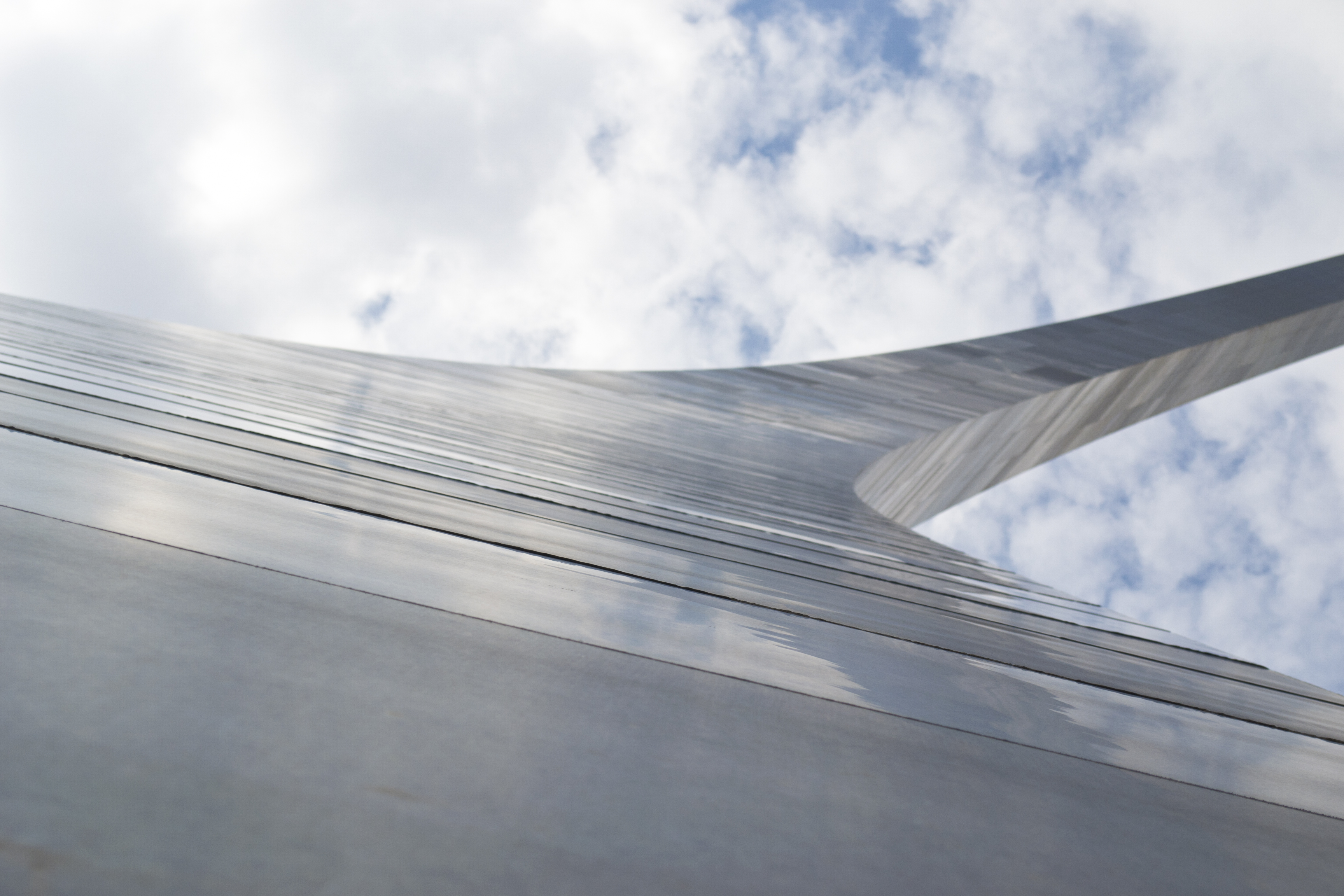 Gateway Arch